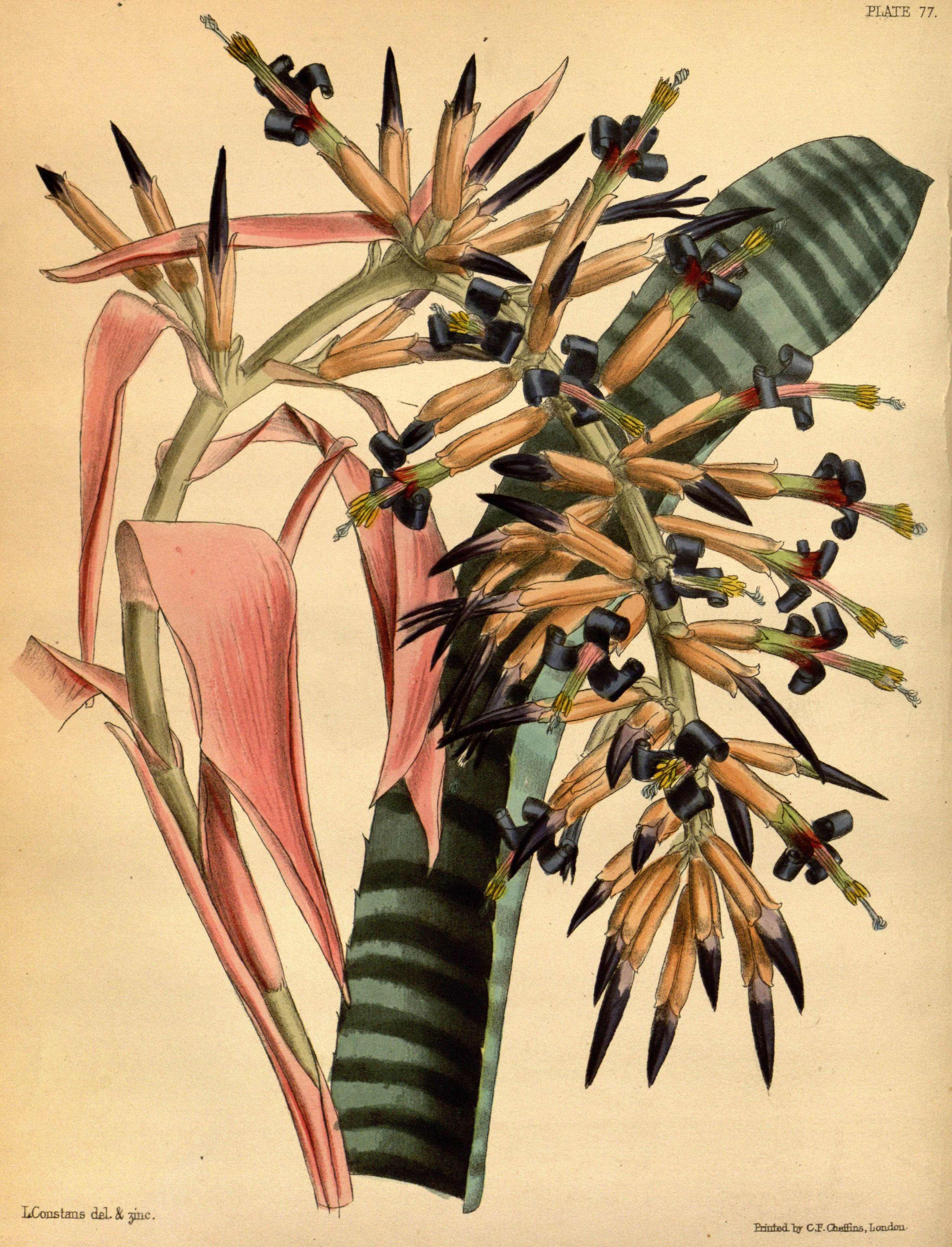 Billbergia vittata Brongn. ex Morel, syn. Billbergia moreliana Brongn.